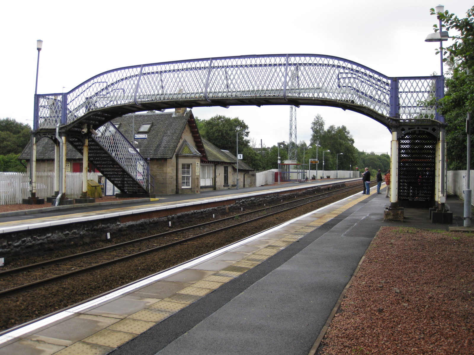 A view of West Calder railway station, looking west. Picture taken 25 August 2012.